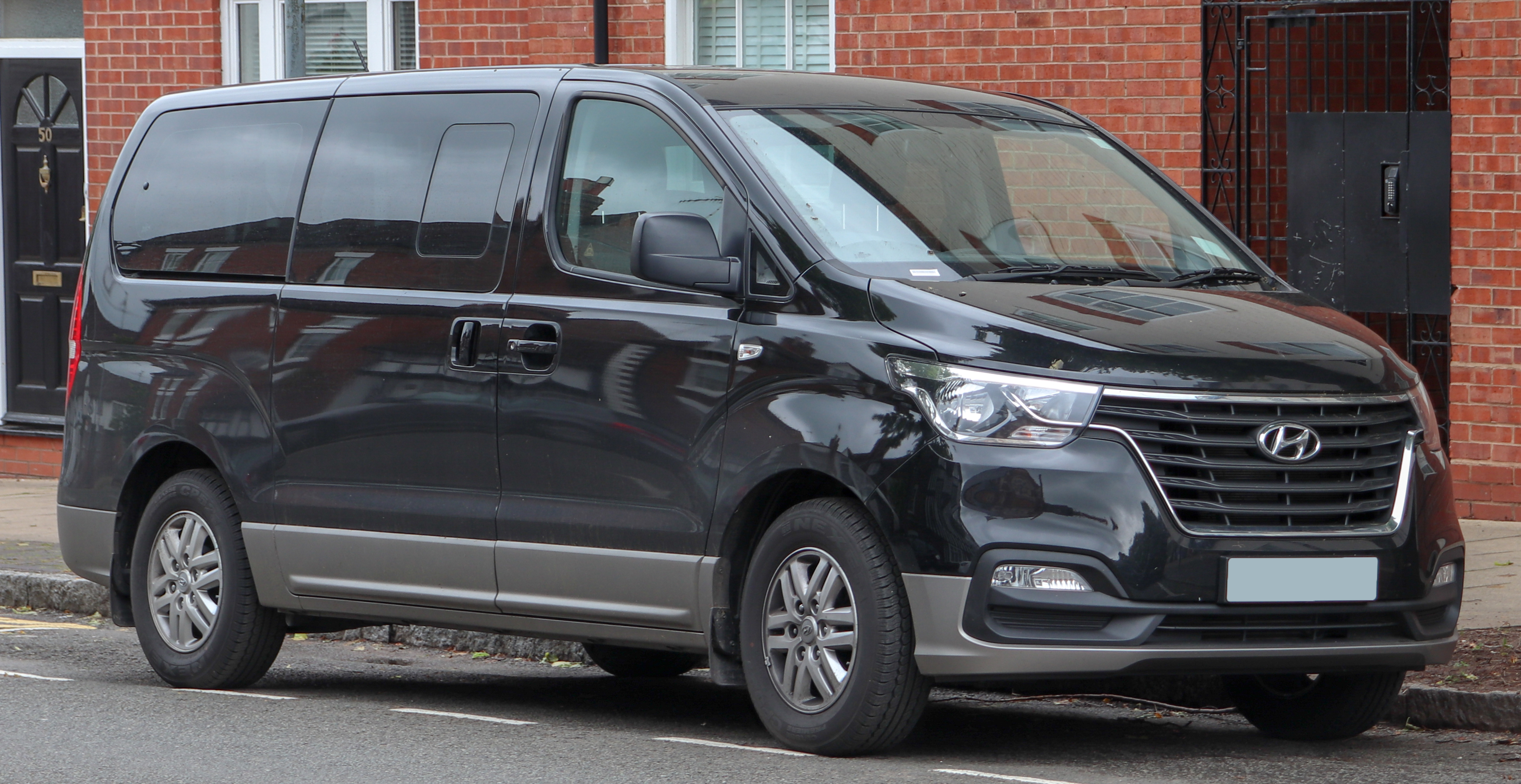 2019 Hyundai i800 SE CRDi Automatic 2.5 Front Taken in Warwick